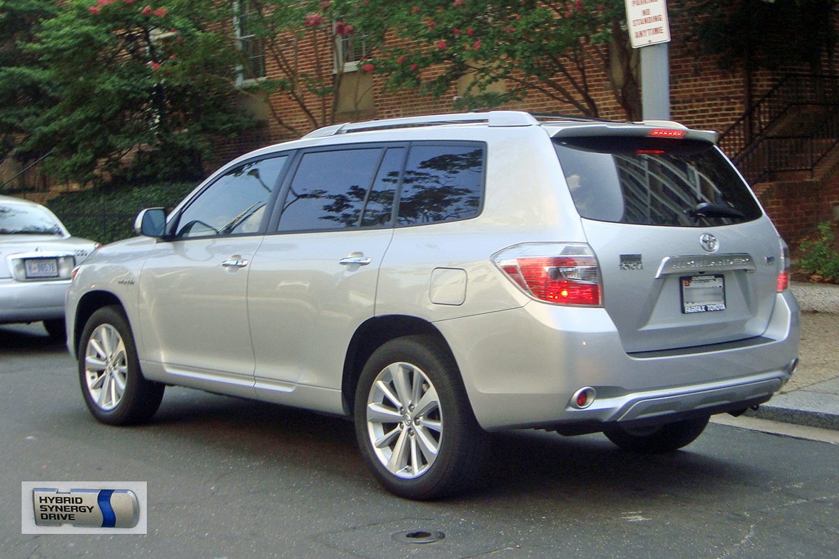 Toyota Highlander Hybrid with inserted hybrid logo, Washington, D.C.